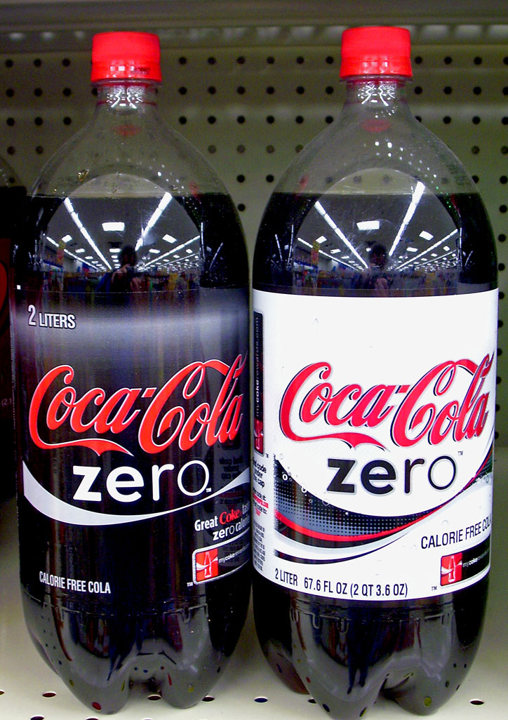 Photographed by Daniel Case 2007-03-01 at a local drugstore, one of the few places I could find an older design. Note that despite licensing, image still contains third-party copyrights and may not be permissible as a free image in some jurisdictions, nor under some foreign-language Wikipedia policies.